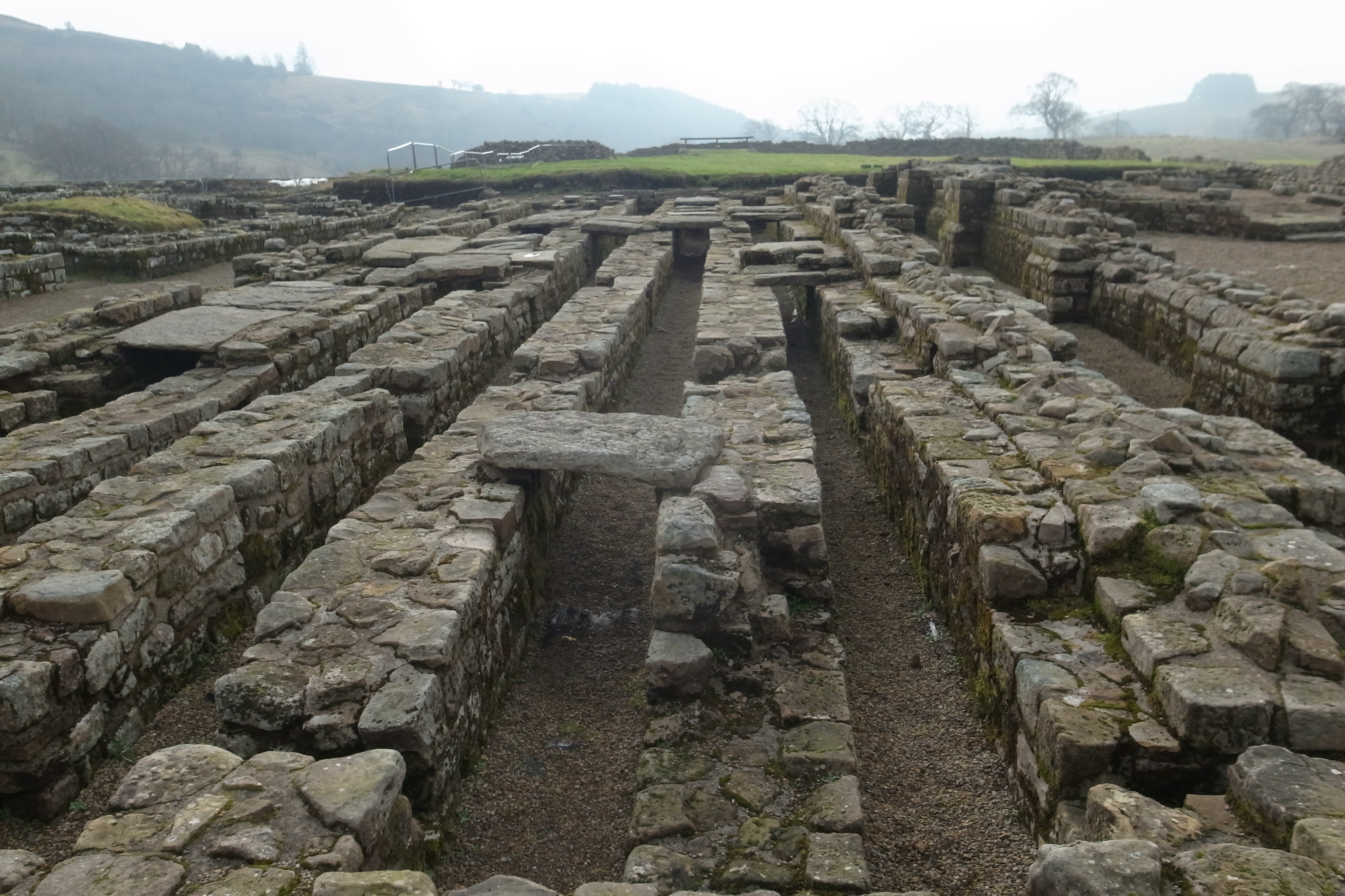 Granary and stores buildings at Vindolanda